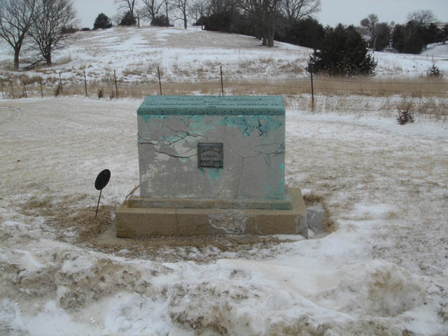 Marker denoting the first settlement in Stephenson County, Illinois.